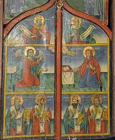 Royal Doors from Saint Constantine and Helen Church in Negrevo